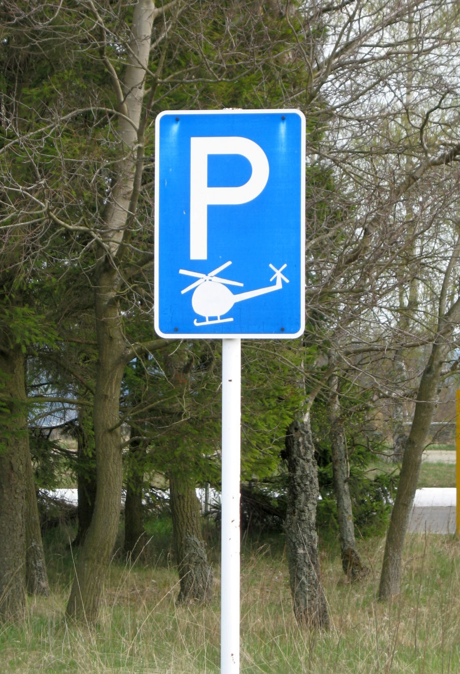 Helicopter parking sign on ground of the former Ordensburg Vogelsang